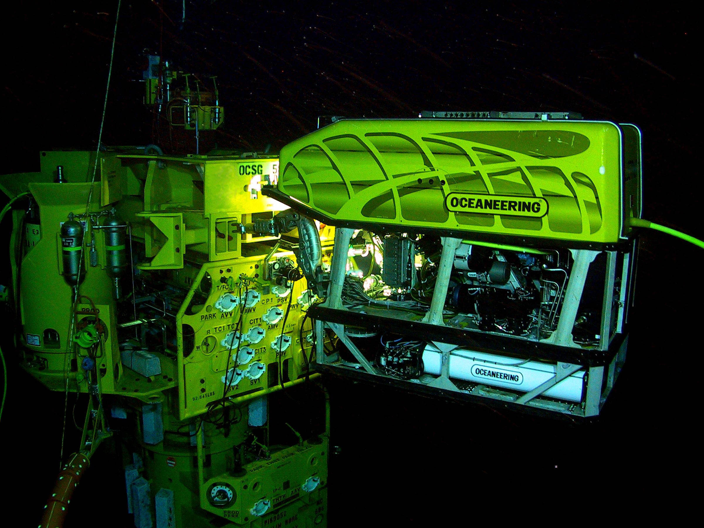 This pictures was uploaded by Frank van Mierlo. It was generously donated to the public domain by the Vice President of Oceaneering Mr. Duncan McLean